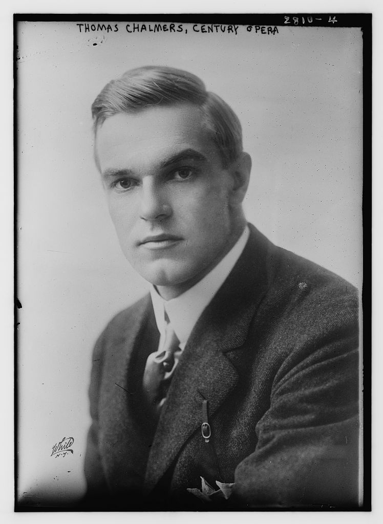 Bain News Service,, publisher. Thomas Hardie Chalmers, Century Opera [between ca. 1910 and ca. 1915] 1 negative : glass ; 5 x 7 in. or smaller. Notes: Title from unverified data provided by the Bain News Service on the negatives or caption cards. Forms part of: George Grantham Bain Collection (Library of Congress). Format: Glass negatives. Repository: Library of Congress, Prints and Photographs Division, Washington, D.C. 20540 USA, General information about the Bain Collection is available at Persistent URL: Call Number: LC-B2- 2810-4